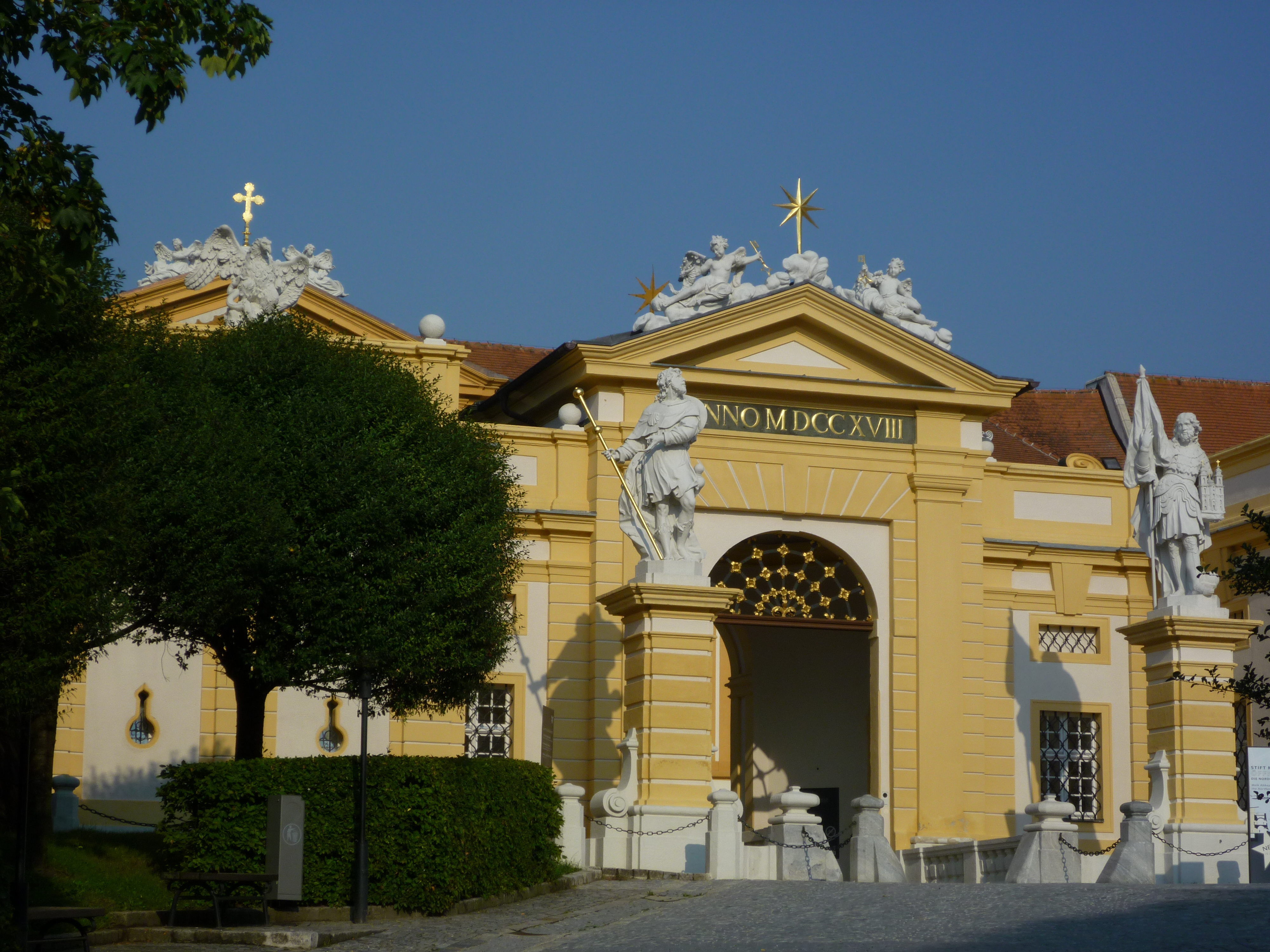 Portal of Melk Abbey